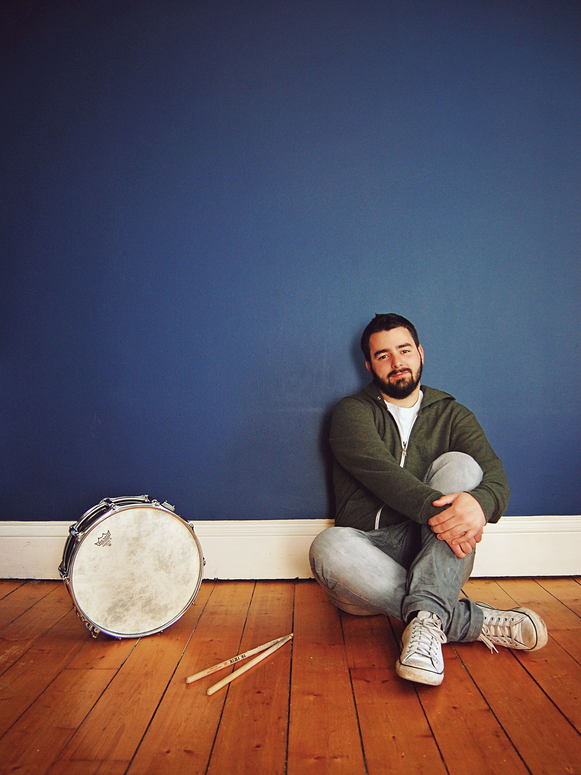 A photo of Drummer Richard Kass